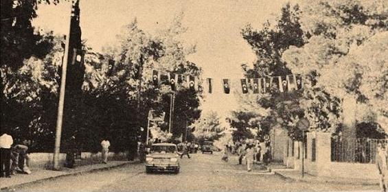 Holiday Libyan independence in Al Bayda City, Libya.